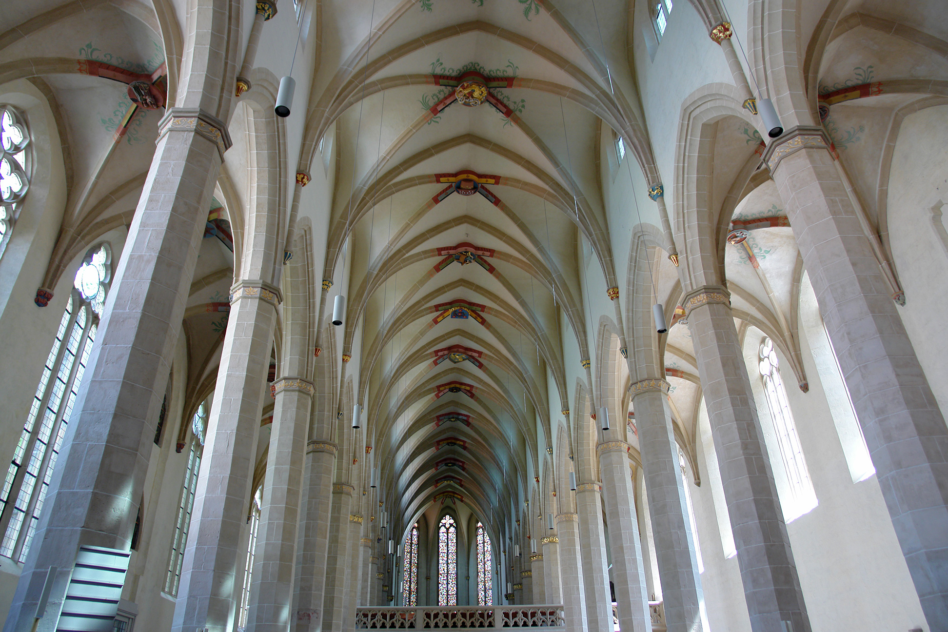 Erfurt, Thuringia, Germany